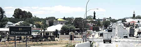 Skyline image of the Otjiwarongo town.